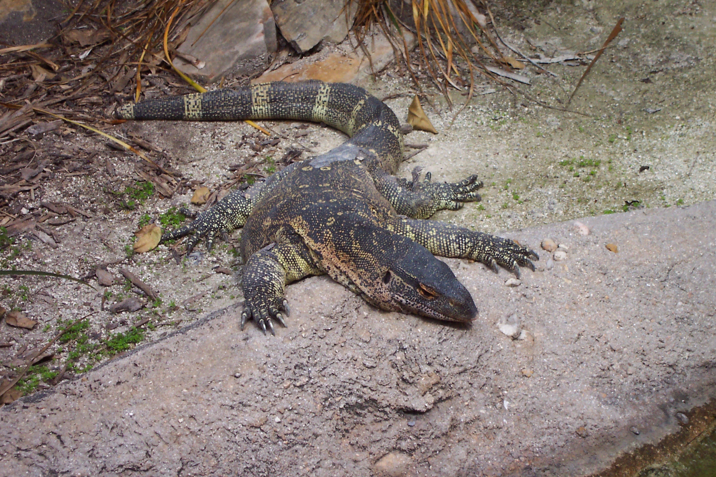 zoo monitor lizard